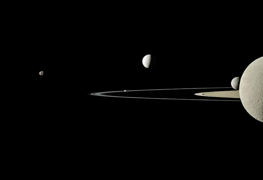 PIA12797: Group Portrait - Planet Saturn and Five Moons (full-color version) - July 30, 2018 On July 29, 2011, Cassini captured five of Saturn's moons in a single frame with its narrow-angle camera. This is a full-color look at a view that was originally published in September 2011 (see PIA14573). Moons visible in this view: Janus (111 miles, or 179 kilometers across) is on the far left; Pandora (50 miles, or 81 kilometers across) orbits just beyond the thin F ring near the center of the image; brightly reflective Enceladus (313 miles, or 504 kilometers across) appears above center; Saturn's second largest moon, Rhea (949 miles, or 1,528 kilometers across), is bisected by the right edge of the image; and the smaller moon Mimas (246 miles, or 396 kilometers across) is seen just to the left of Rhea. This view looks toward the northern, sunlit side of the rings from just above the ringplane. Rhea is closest to Cassini here. The rings are beyond Rhea and Mimas. Enceladus is beyond the rings. The view was acquired at a distance of approximately 684,000 miles (1.1 million kilometers) from Rhea and 1.1 million miles (1.8 million kilometers) from Enceladus. The Cassini spacecraft ended its mission on Sept. 15, 2017. The Cassini mission is a cooperative project of NASA, ESA (the European Space Agency) and the Italian Space Agency. The Jet Propulsion Laboratory, a division of the California Institute of Technology in Pasadena, manages the mission for NASA's Science Mission Directorate, Washington. The Cassini orbiter and its two onboard cameras were designed, developed and assembled at JPL. The imaging operations center is based at the Space Science Institute in Boulder, Colorado. For more information about the Cassini-Huygens mission visit and The Cassini imaging team homepage is at